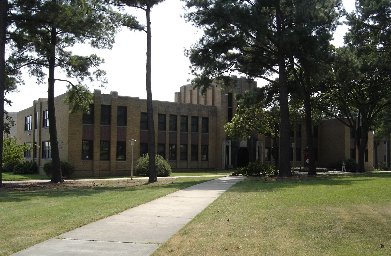 Arkansas State University, College of Mathematics and Computer Sciences